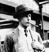 Photo of Wilfrid T. Reid, c. 1920